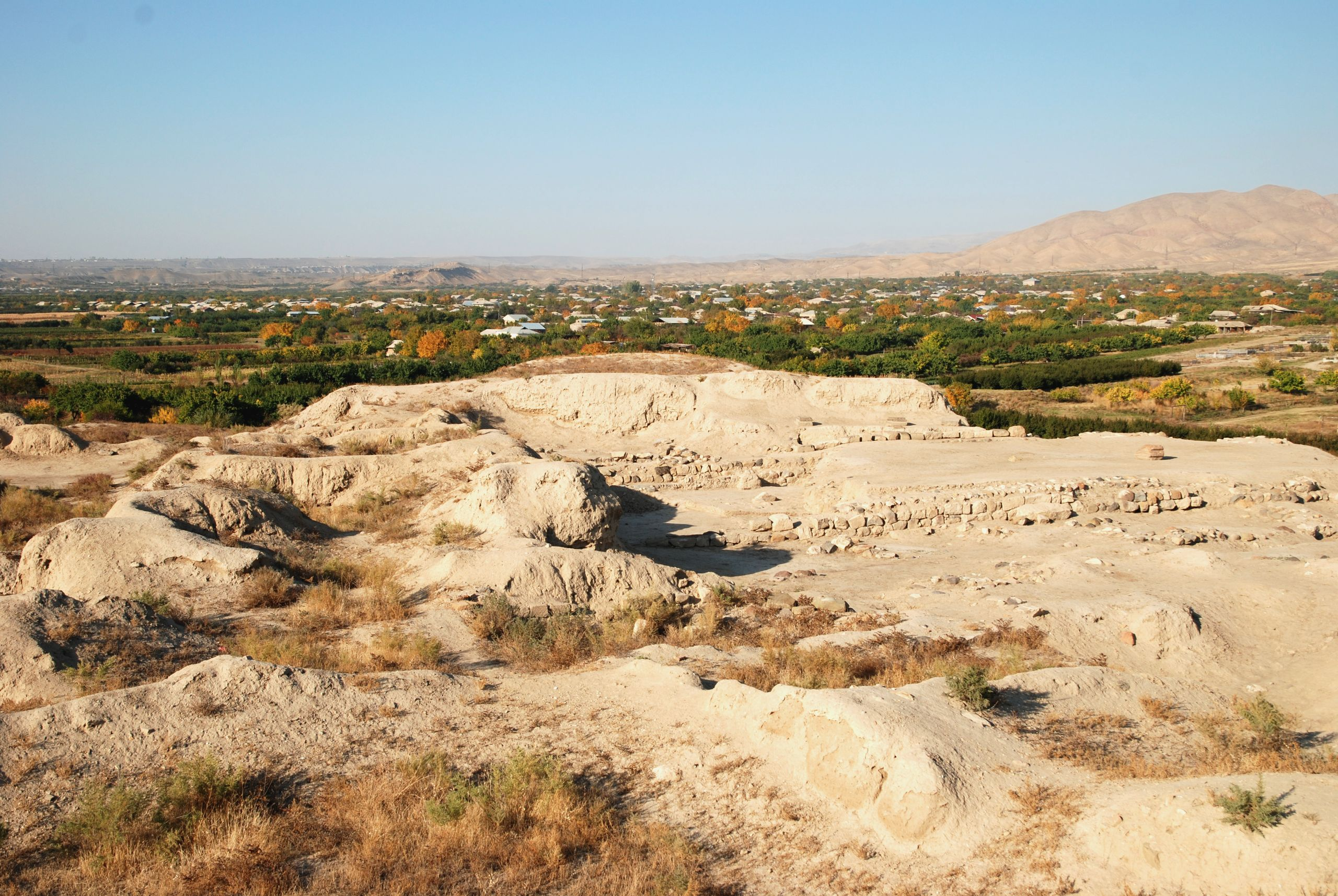 Dvin, citadel north side and village Dvin